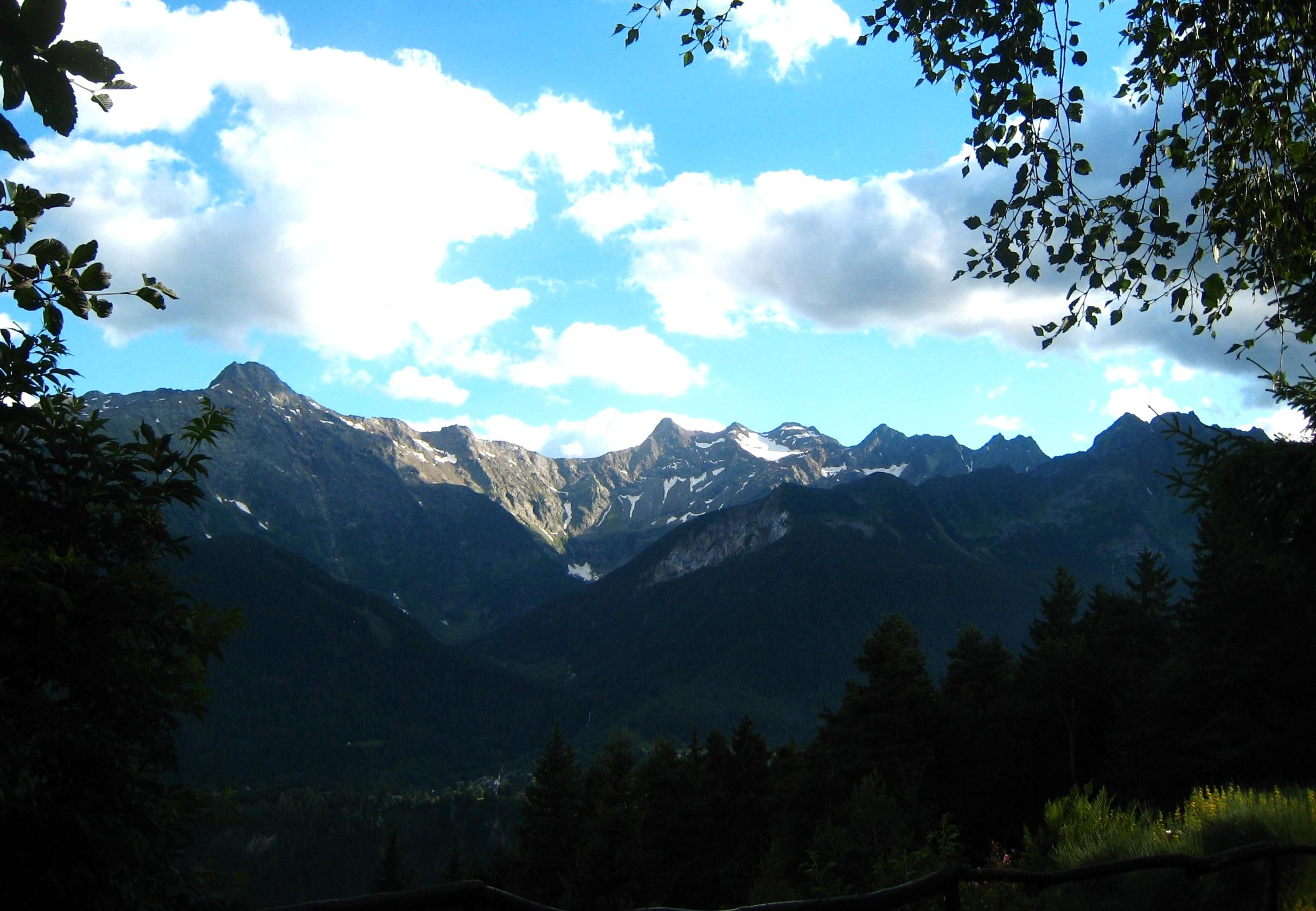 Pizzo Campo Tencia (middle) above Dalpe, east view, Ticino